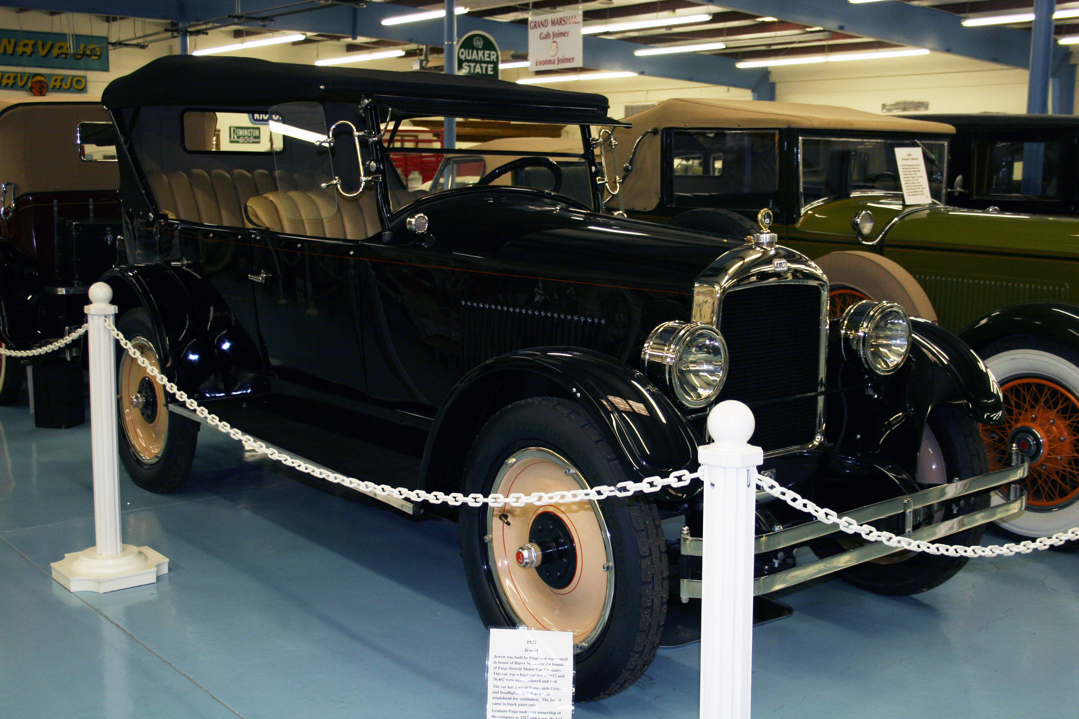 1922 Jewett 18-22 Five Passenger Touring Car housed in the J&R Auto Museum in Bernalillo, New Mexico. Taken 2/11/2012.